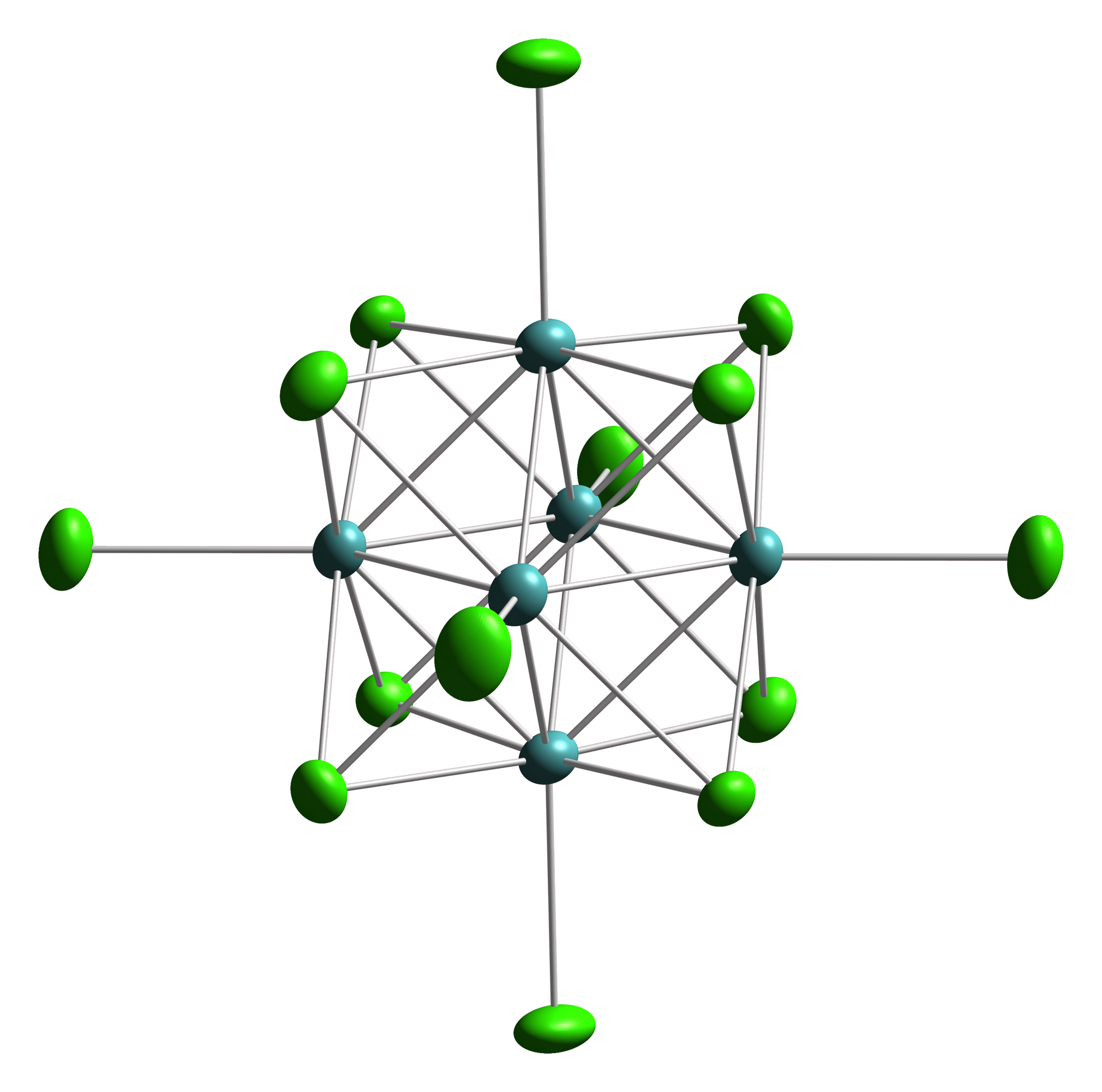 Thermal ellipsoid model of the [Mo6Cl14]2− cluster anion, as found in the crystal structure of [4-HNC5H4OH]2[Mo6Cl14]. Colour code: Molybdenum, Mo: light blue Chlorine, Cl: green Crystal structure data from J. Am. Chem. Soc. (2008) 130, 10038–10039. Image generated in CrystalMaker 8.3.